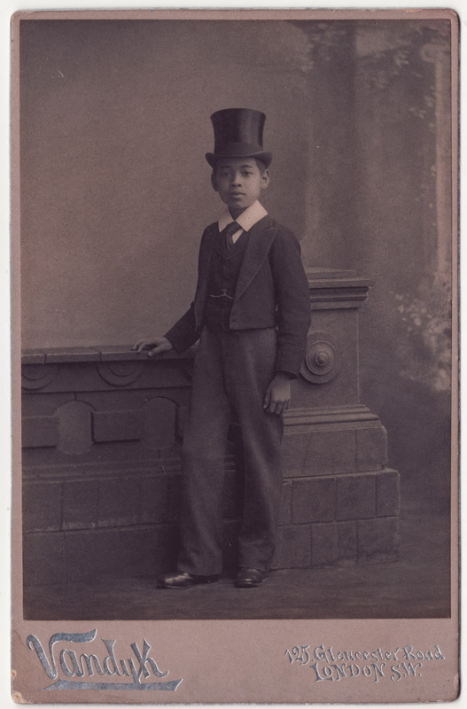 A cabinet card portrait of Vajiravudh, Rama VI, while studying in England